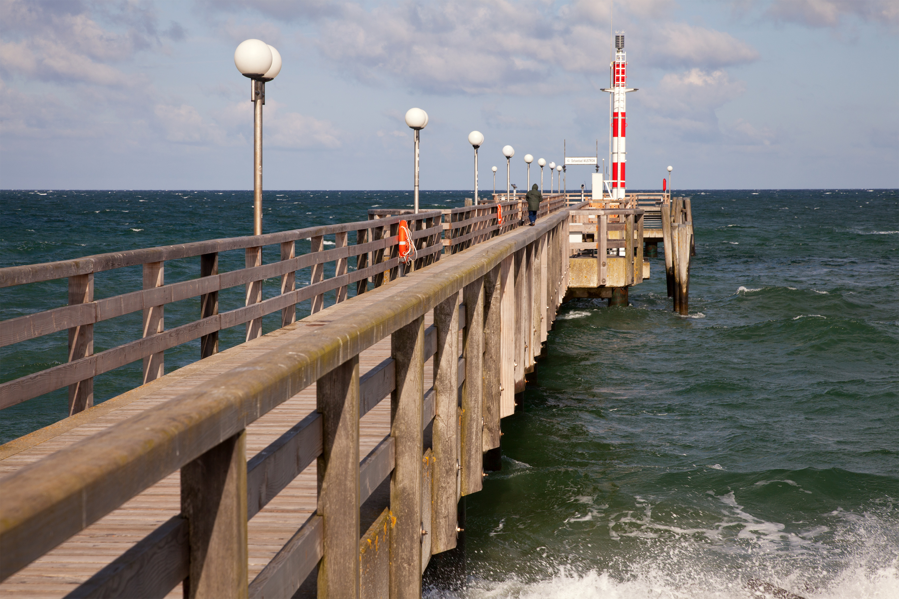 Wustrow, pier